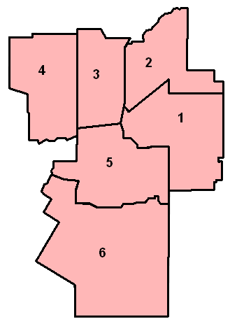 Map of Guelph, Ontario's six wards used since 2018